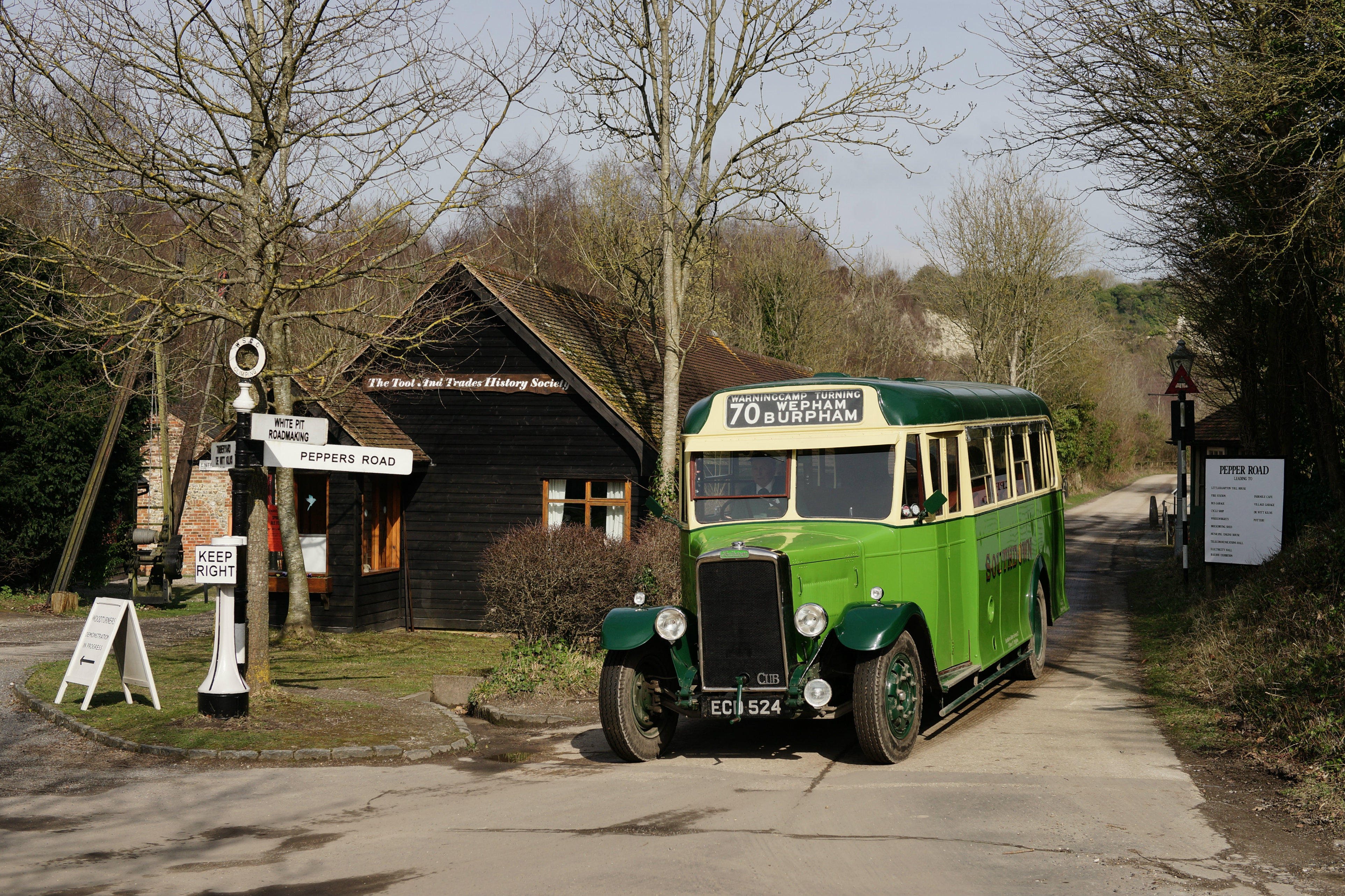 1937 Southdown Leyland Cub single-deck 24-seater, on transport duties during the Amberley Springfest Ale Festival.